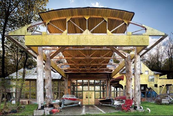 Front entrance overhanging roof with tracks underneath to wheel large unfinished projects inside and out.